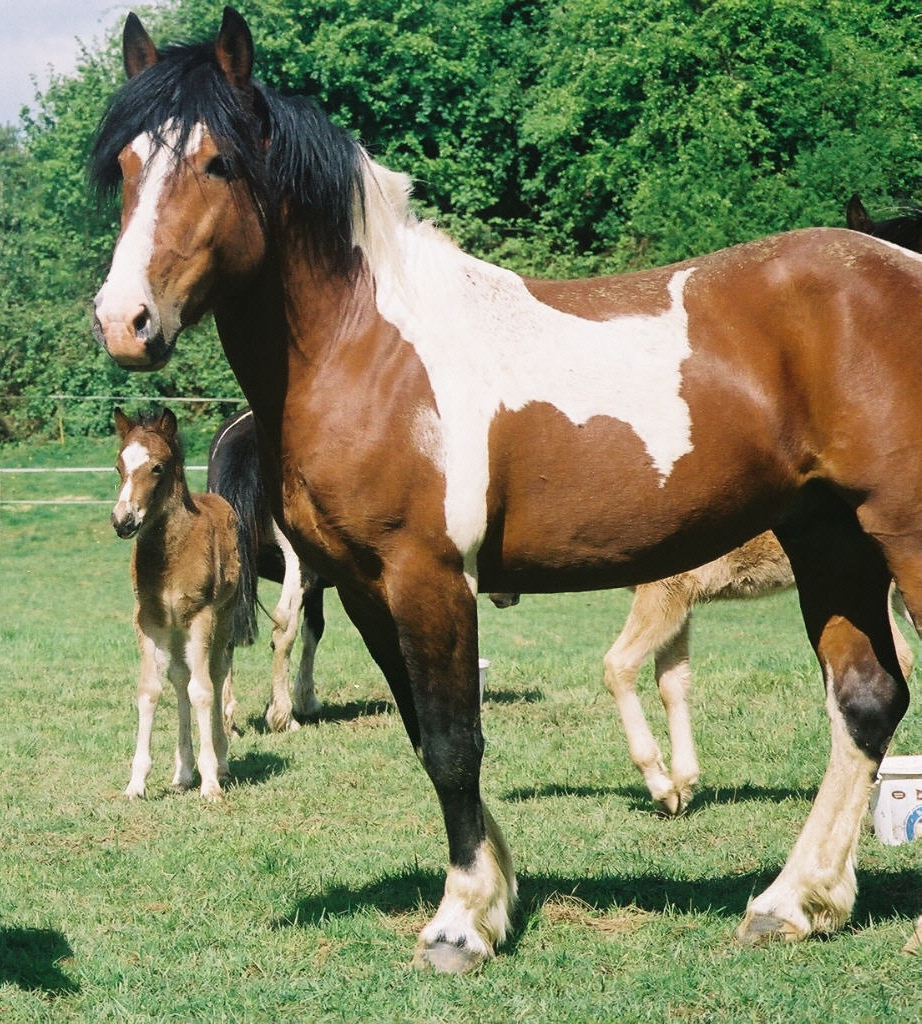 Pottok Stalion/Etalon Judo with children / avec enfants